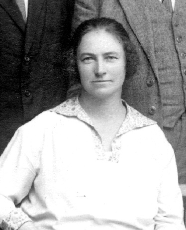 Lawyer from Lithuania Liuda Purėnienė – Vienožinskaitė, 1922